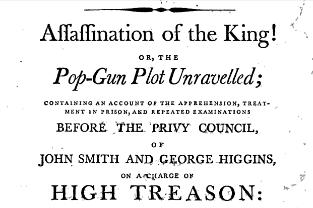 Frontispiece for 1795 work "High treason! Narrative of the arrest, examinations before the Privy Council, and imprisonment of P. T. L., accused of being a Party in the Pop-Gun Plot, or a pretended Plot to kill the King, etc"